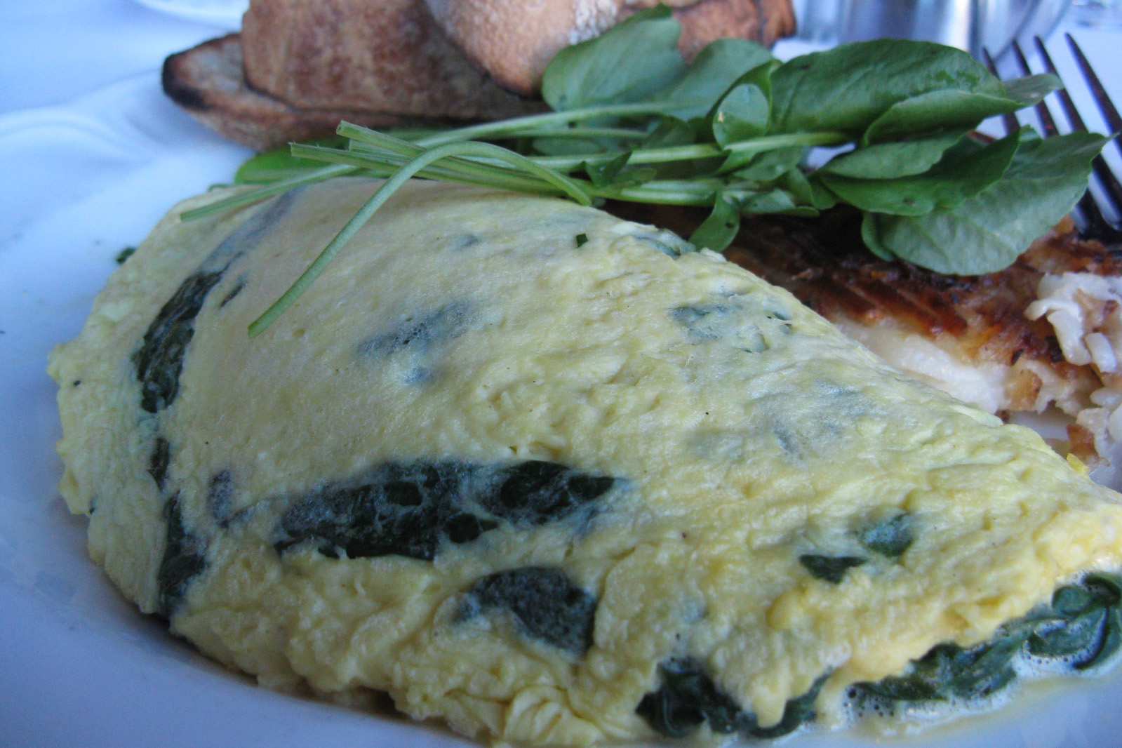 Omelette at Mon Ami Gabi in Las Vegas, Nevada